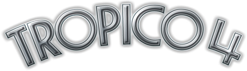 This logo shows the picture of the fourth instalment of the Tropico-videogame series.